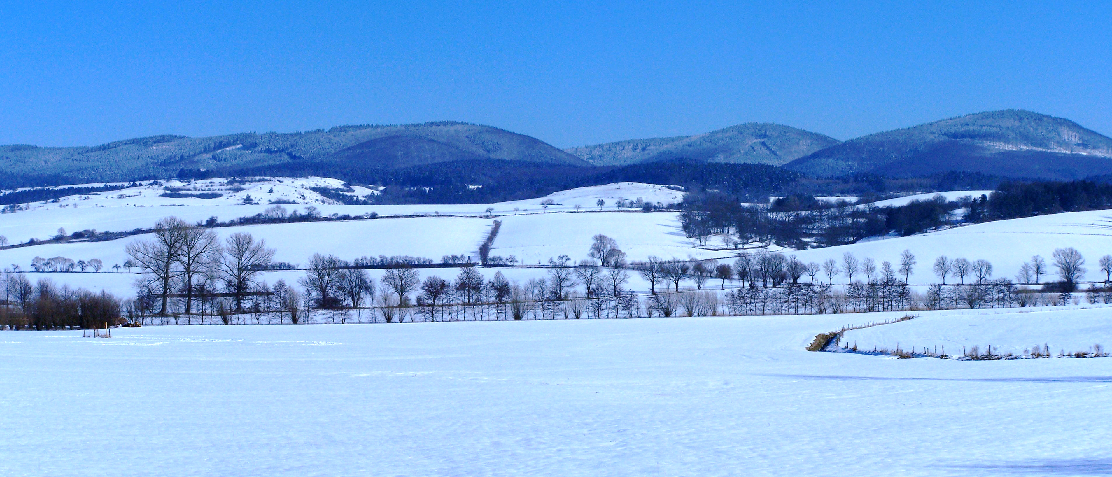 The Gumpelstadt and Kissel region in Moorgrund.